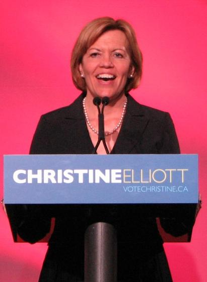 Christine Elliott at the launch of her bid to lead the Progressive Conservative Party of Ontario